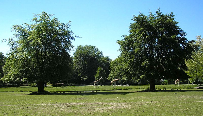 Zoo Augsburg (Bayerisch-Schwaben). Teil des Afrika-Panoramas. Eigene Aufnahme, Mai 2007 / Augsburg Zoo (Bavaria, Germany). Part of the Africa panorama. Own photo, May 2007